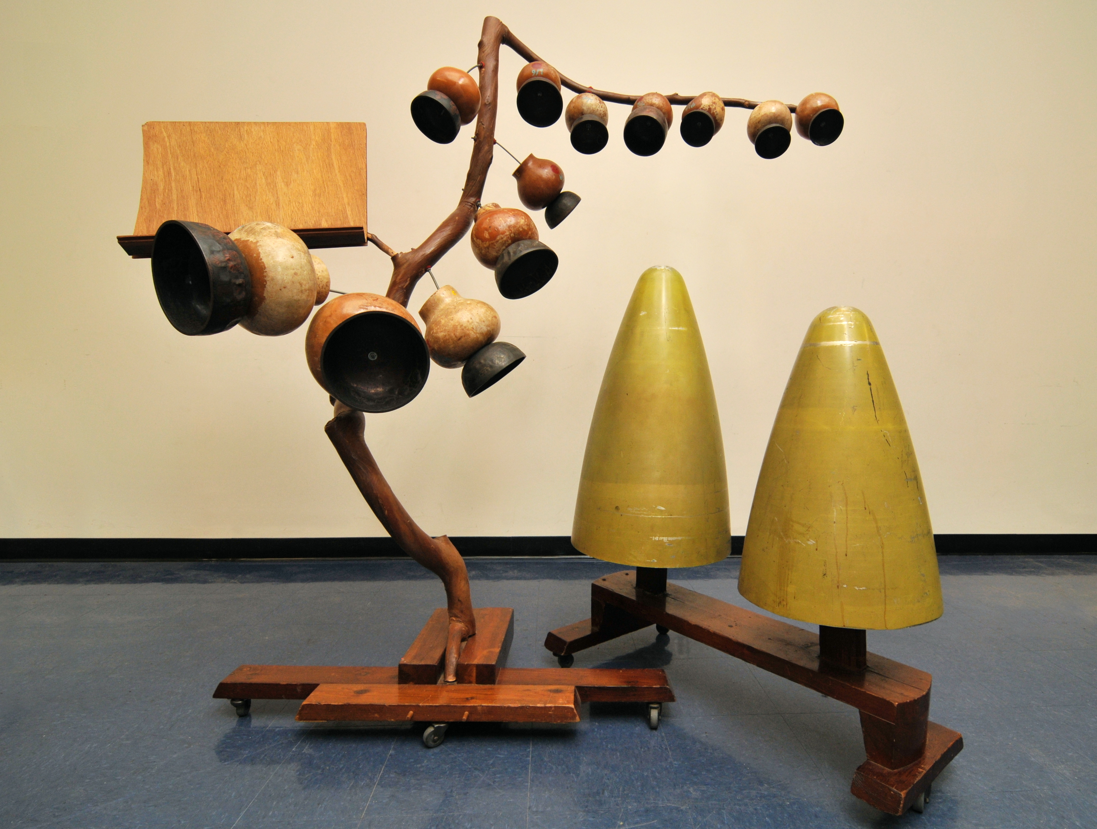 Harry Partch's Gourd Tree and Cone Gongs. Photographed at the Harry Partch Institute at Montclair State University.